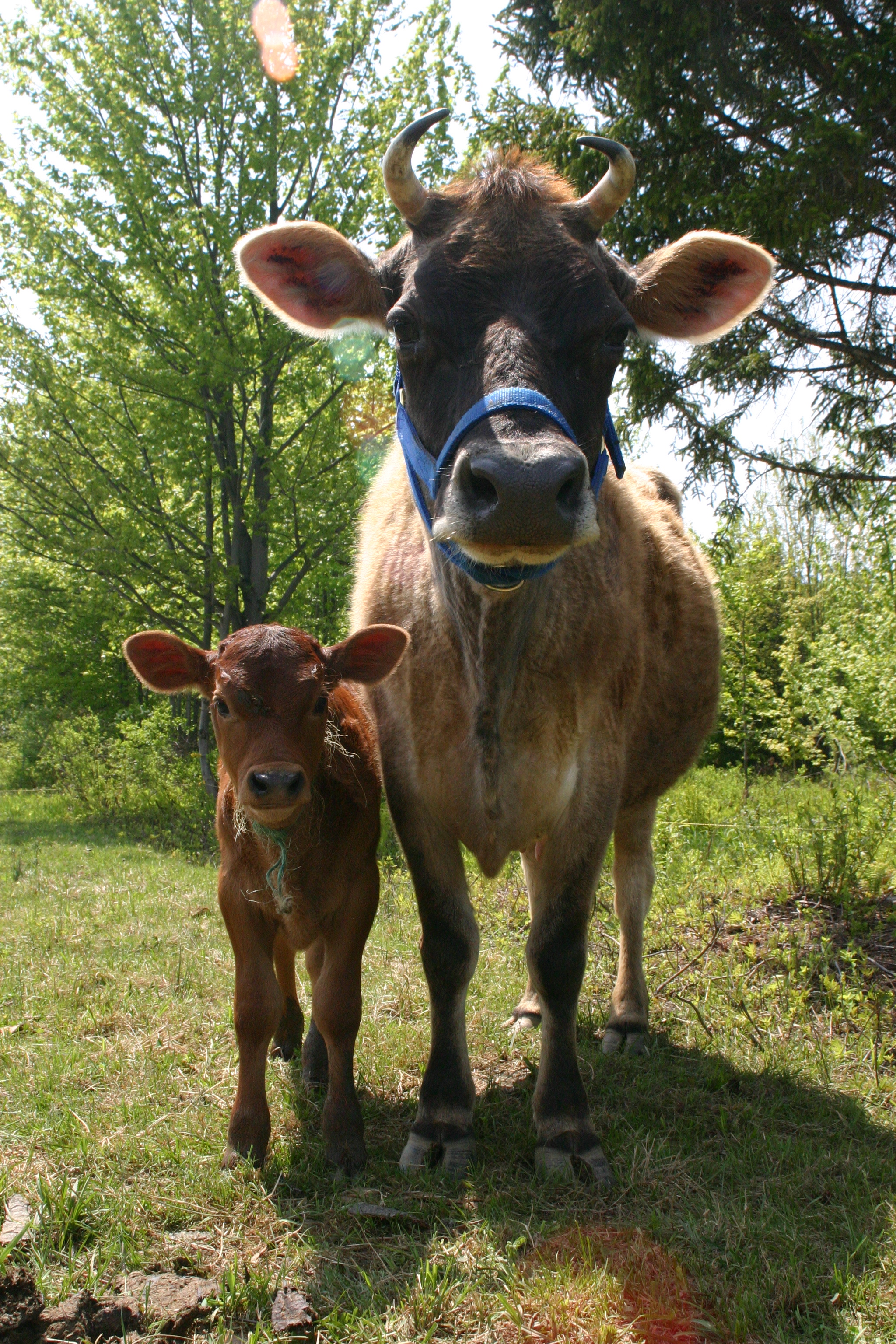 A Jersey cow and her calf (calf may be cross-bred).